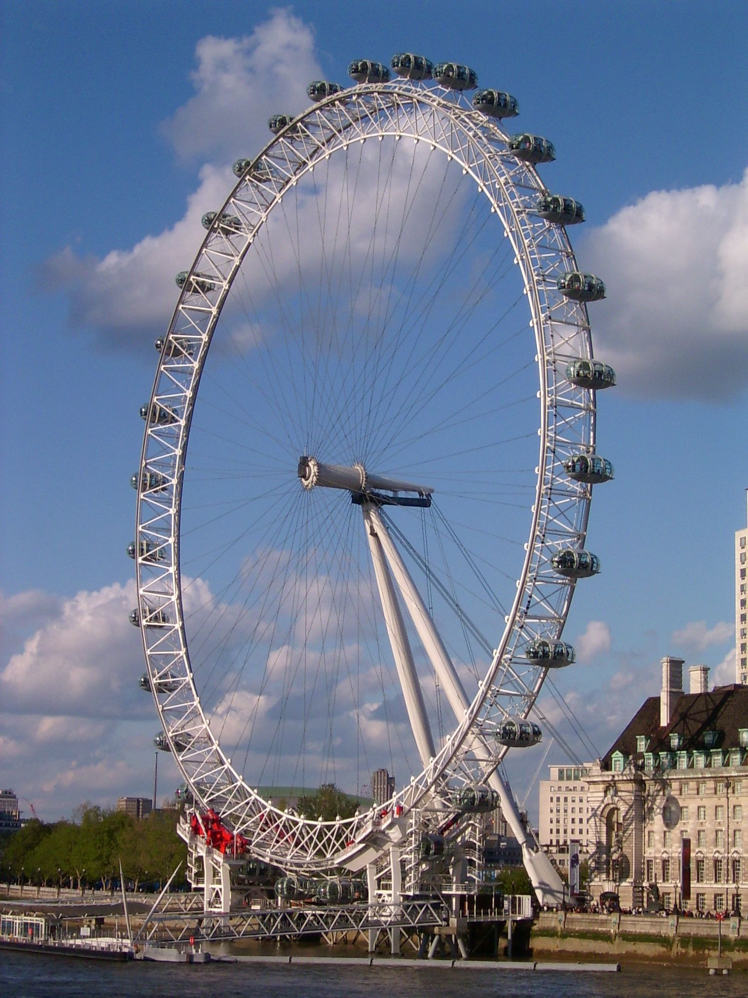 London Eye, 2005.